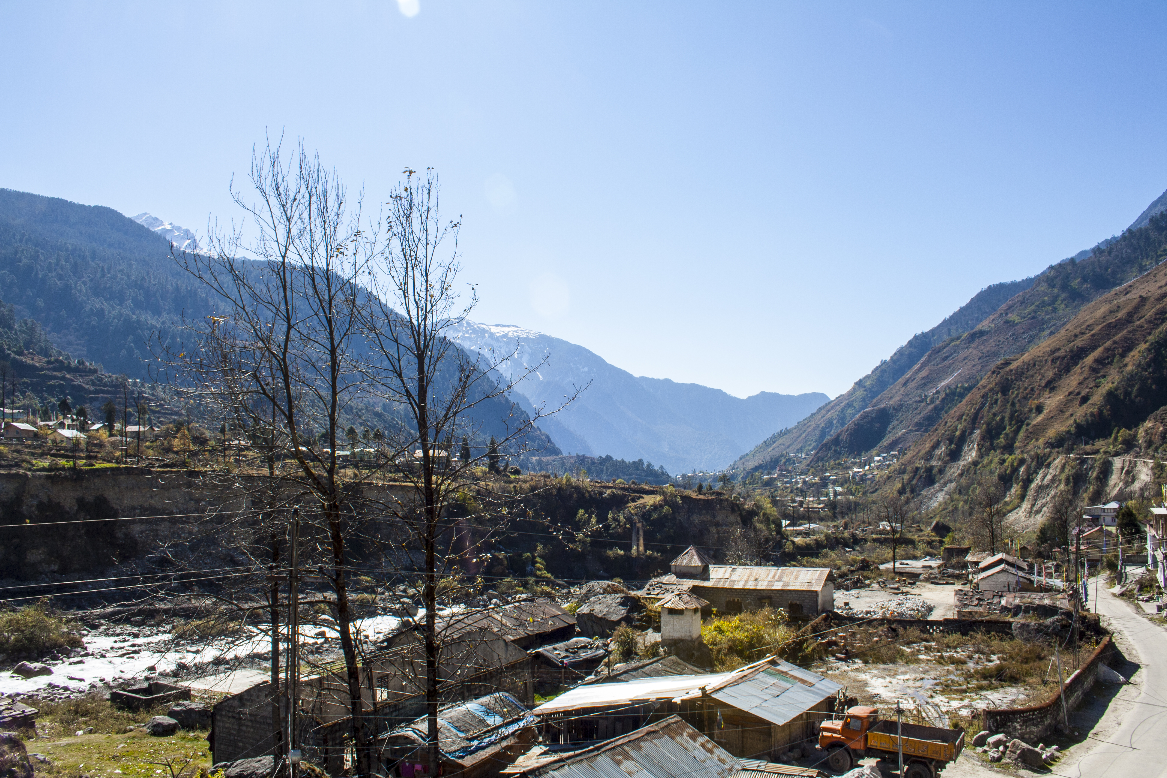 Lachung is a town in northeast Sikkim. Photograph has been taken during my visit in North Sikkim.